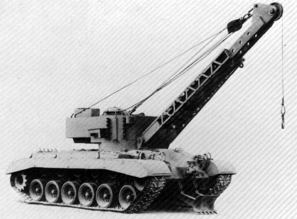 Tank Recovery Vehicle T12, based on M26 Medium Tank Chassis